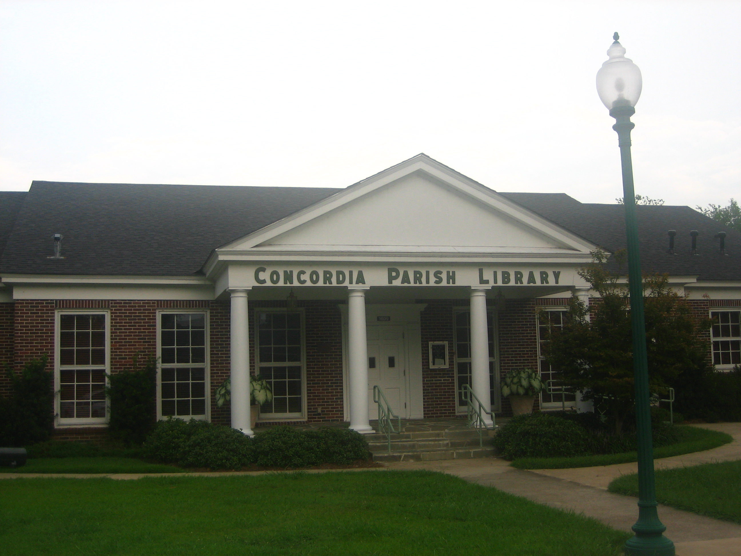 I took photo on Aug. 1, 2008.Billy Hathorn (talk) 01:51, 18 August 2008 (UTC)